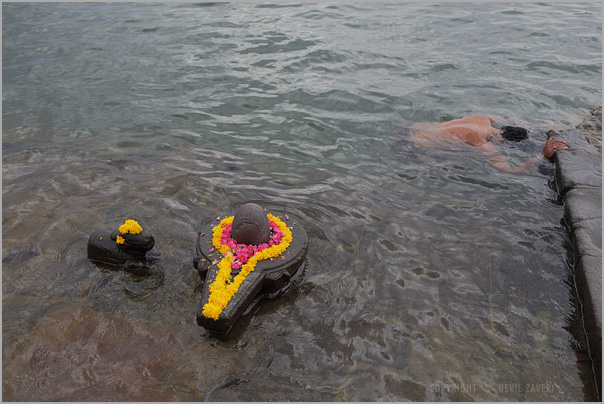 holy dip in the holy narmada river. om namah shivaya Lingam, Yoni, Nandi to the left. Signify the male and female union. Madhya Pradesh India February 2013